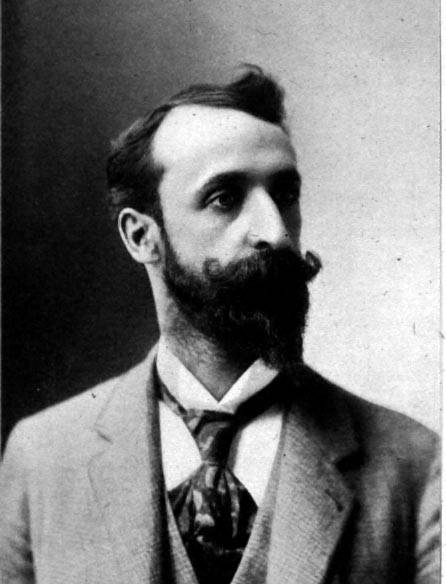 Centennial Biographical History of the City of Columbus and Franklin County (Lewis Publishing Company), OH 977.13 C72 C397, (opp. page 968)